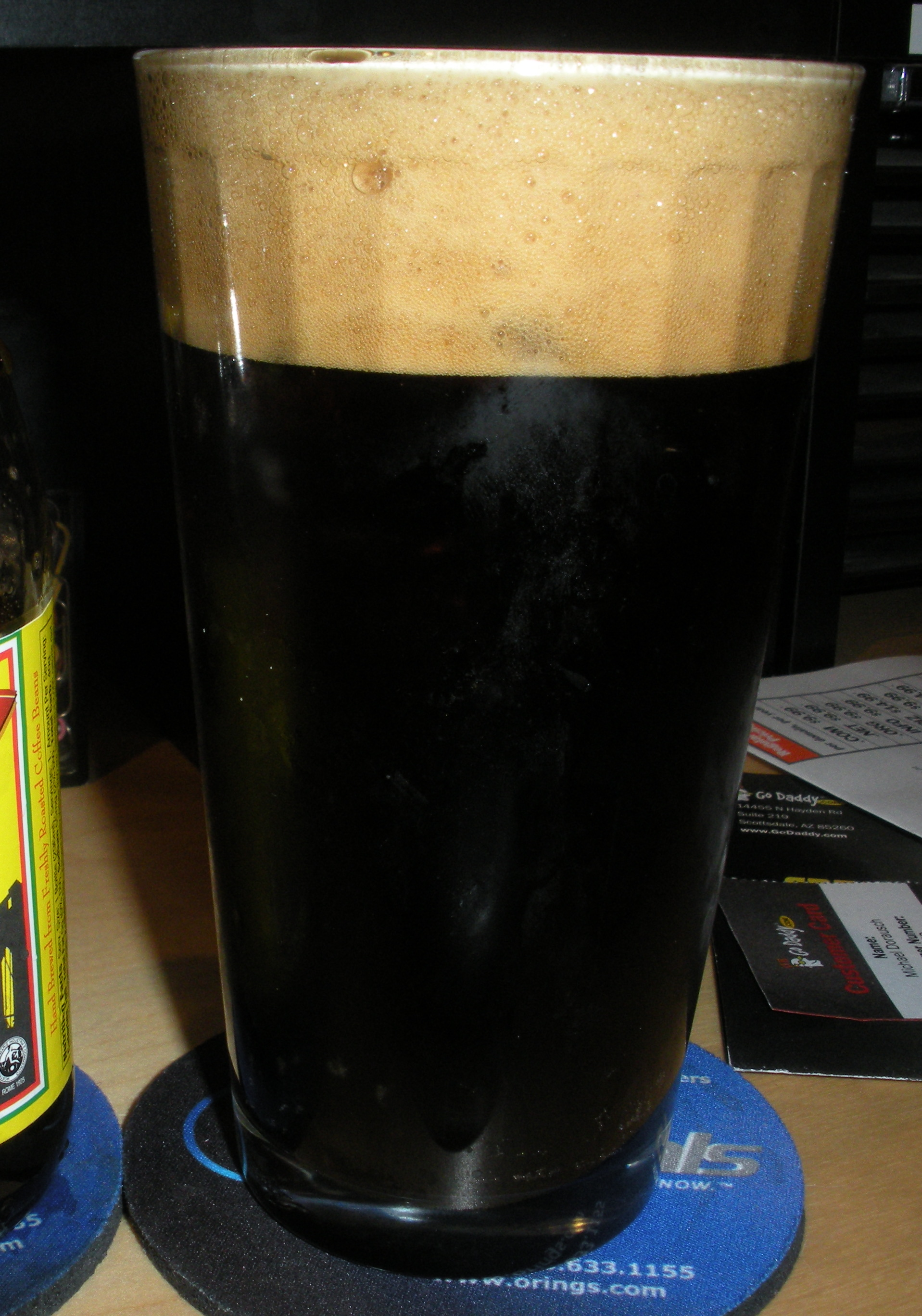 Love this stuff! My favorite soda.